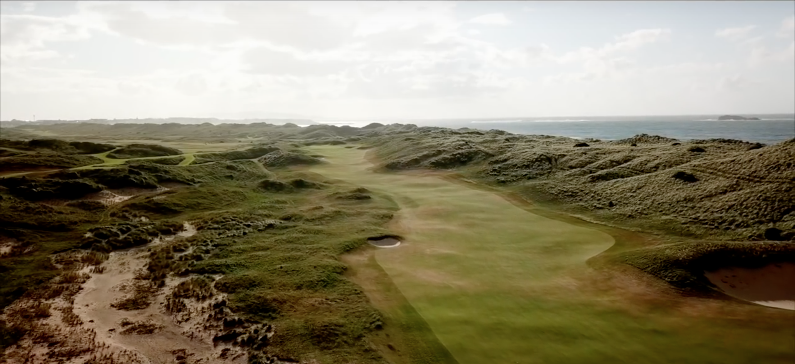 Royal Portrush 7th hole Golf Northern Ireland The Open